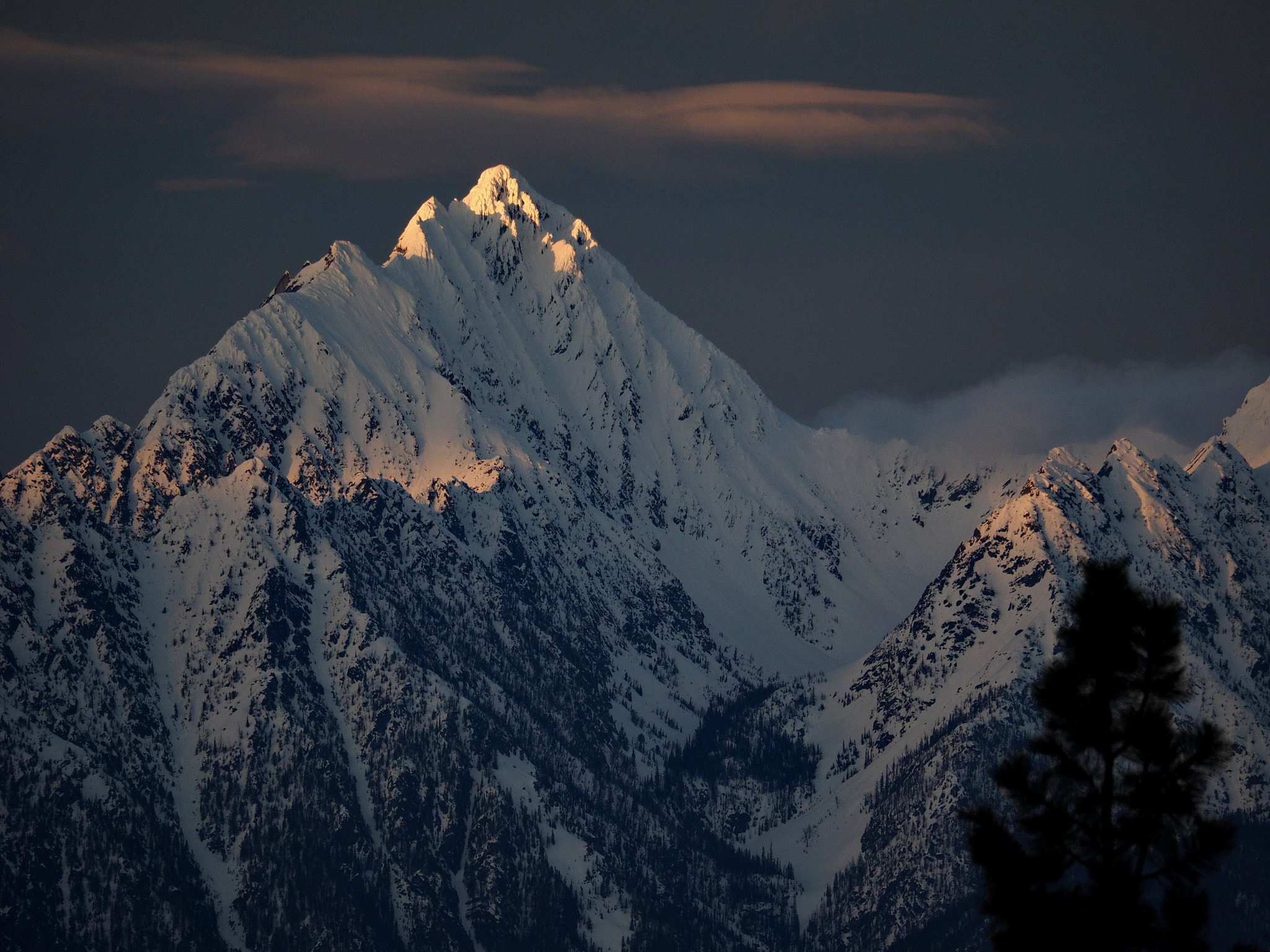 500px provided description: Late evening light on the highest Peak in the local range of the Rocky Mountains. [#Rocky Mountains ,#Evening light ,#Mount Fisher]